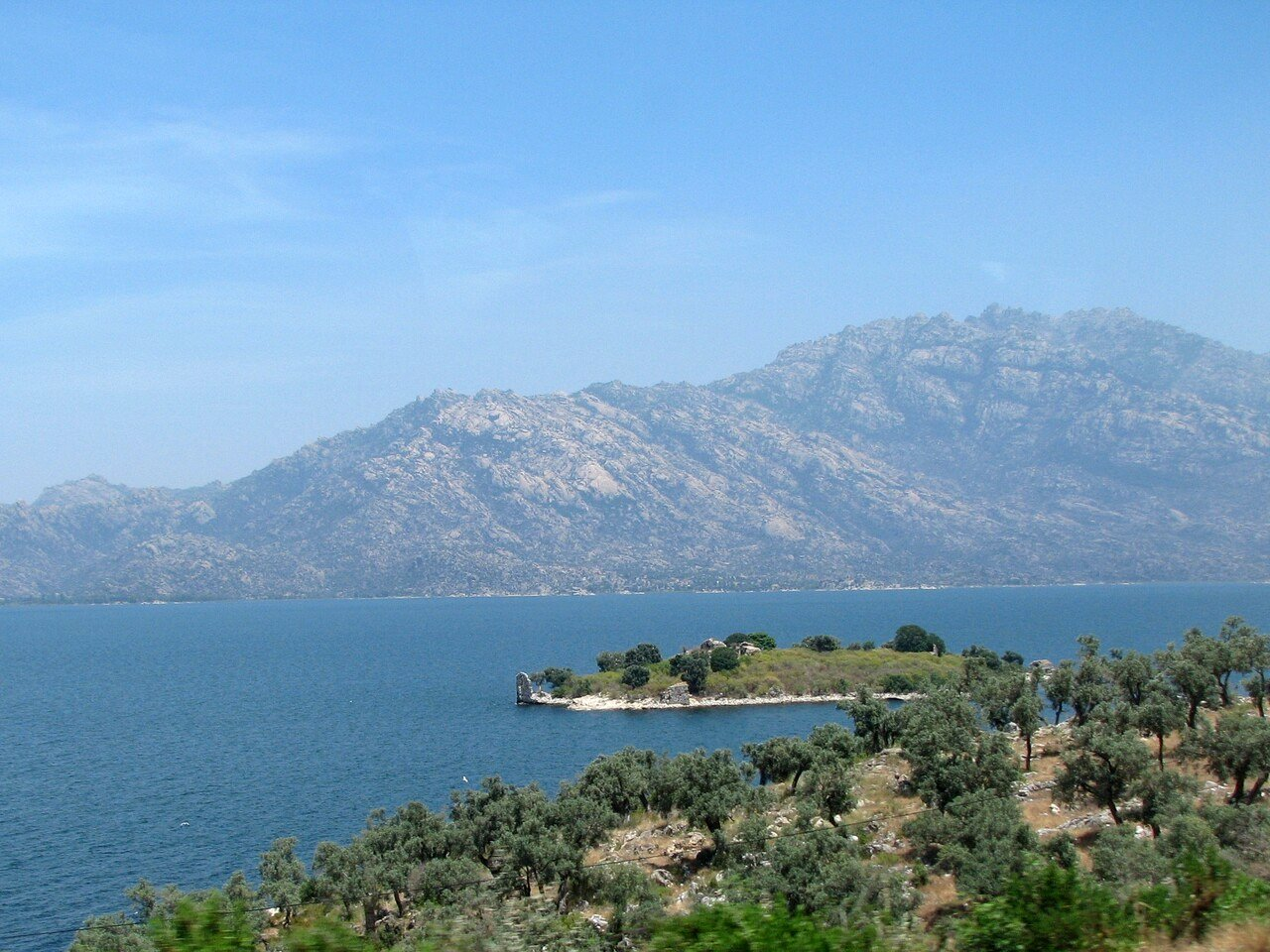 The magnificent Bafa Lake is situated in the southwest region of Turkey.